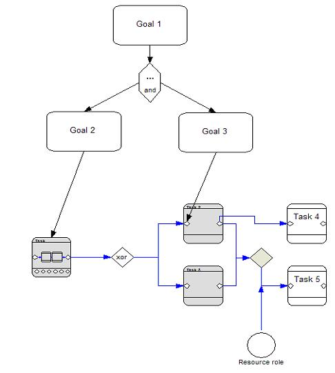 Self Made